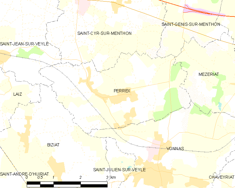 Map of French commune: Perrex Map commune FR insee code 01291.png